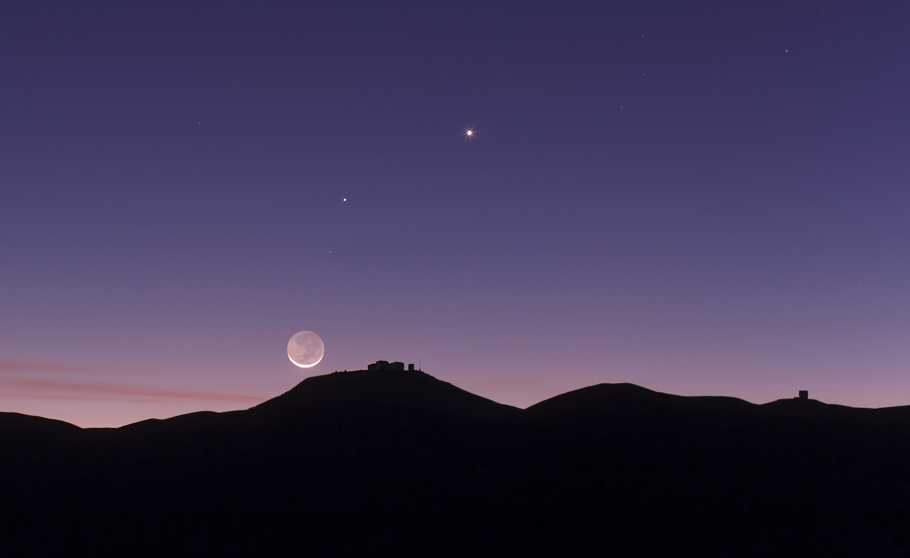 This view shows the thin crescent Moon setting over ESO’s Paranal Observatory in Chile. As well as the bright crescent the rest of the disc of the Moon can be faintly seen. This phenomenon is called earthshine. It is due to sunlight reflecting off the Earth and illuminating the lunar surface. By observing earthshine astronomers can study the properties of light reflected from Earth as if it were an exoplanet and search for signs of life. This picture was taken on 27 October 2011 and also records the planets Mercury and Venus.